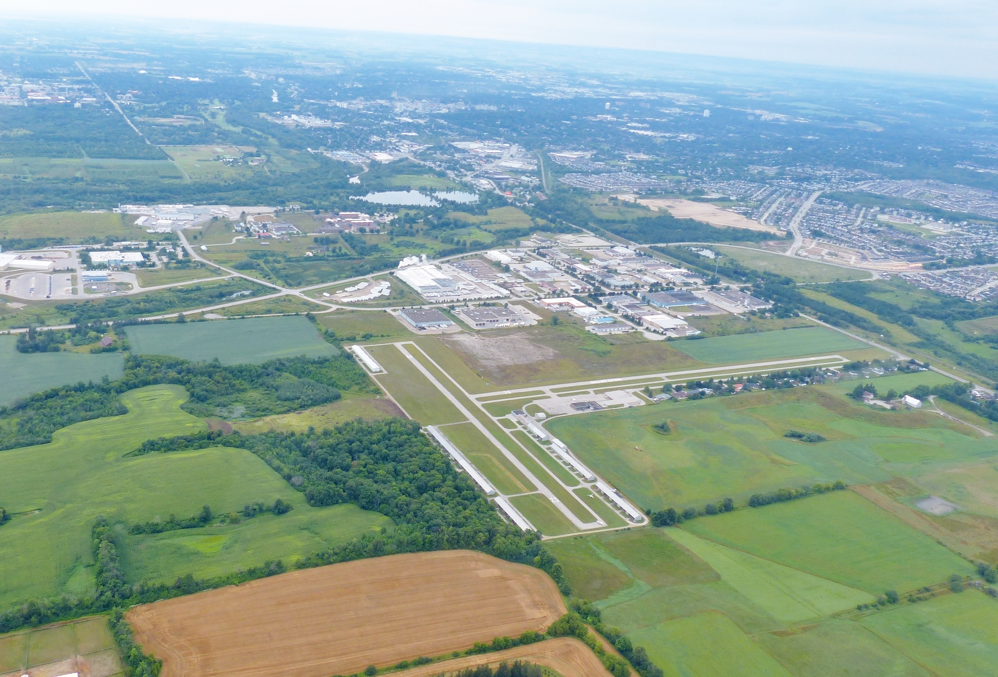 Guelph Airpark, from the east. The photo was taken from a Cessna 152 C-FQZB owned by pilot Bill Carius.